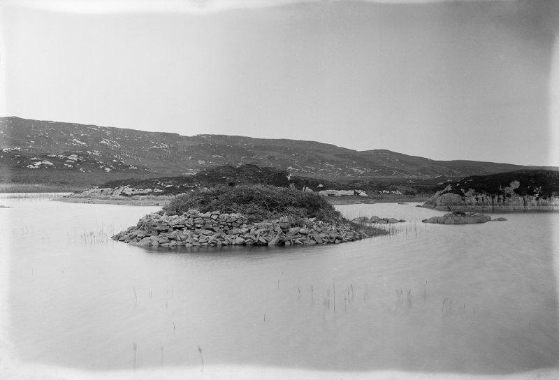 Photograph of the crannog at Loch an Dùin, on the Inner Hebridean island of Coll. The caption given at the source website reads: General view looking across the loch.